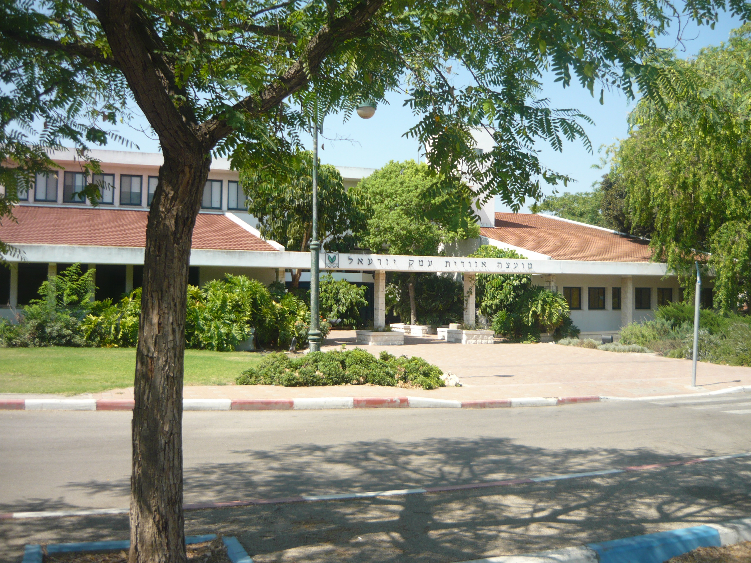 reigional council emeq izreel בניין המועצה האזורית עמק יזרעאל